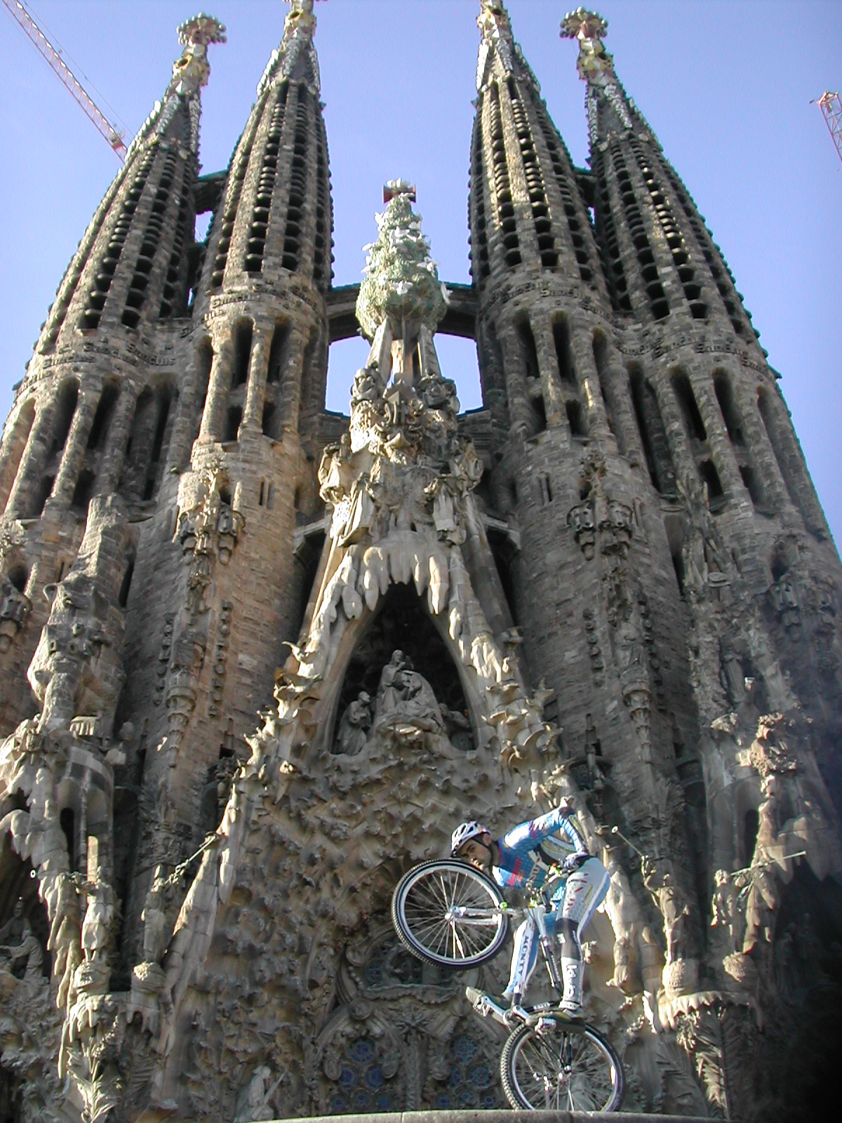 Barcelona Sagrada familia